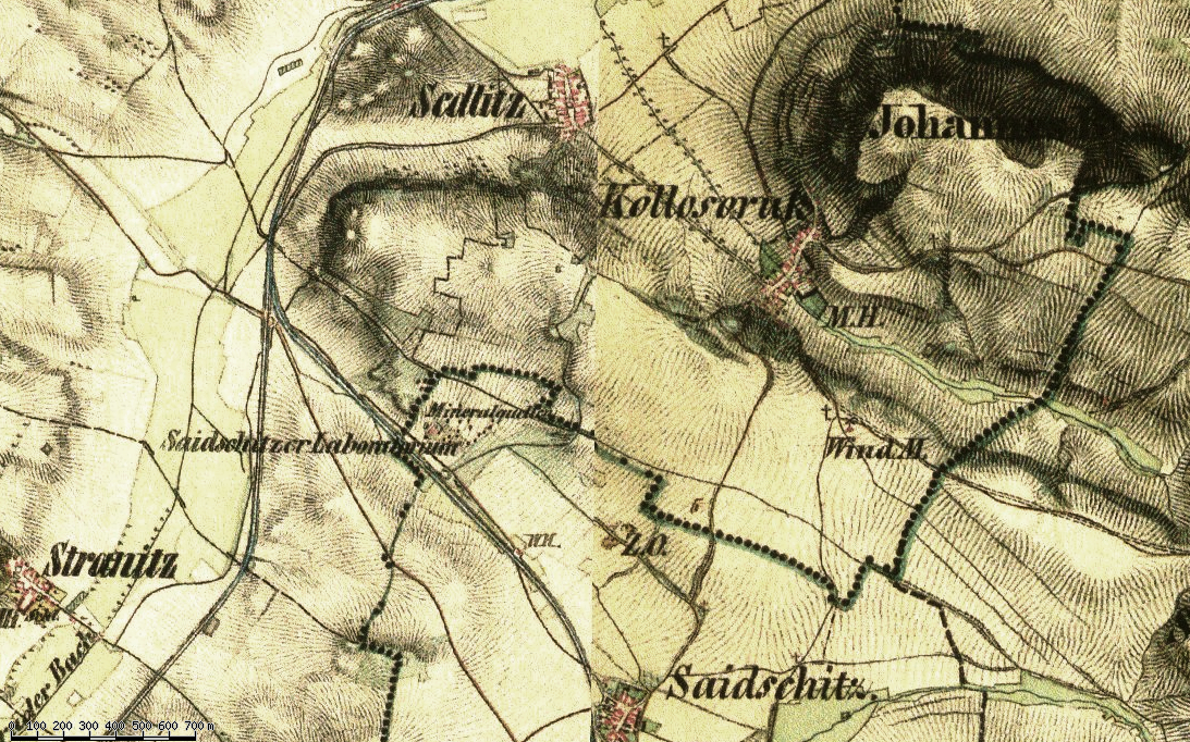 Saidschitz, Sedlitz, Kollosoruk and laboratorium in 19th century